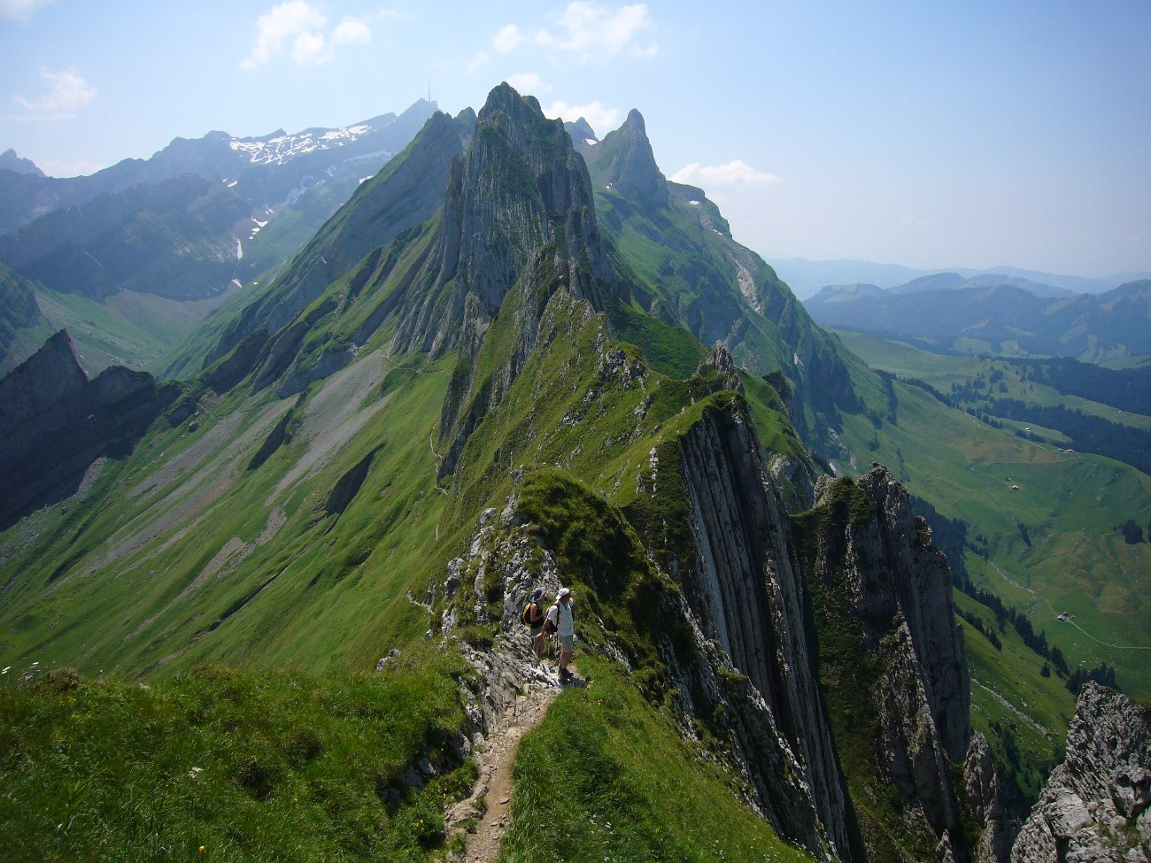 Path leading from Schäfler towards Säntis on the northern ridge of the Alpstein area. The highest point is Altenalp Türm, the northernmost peak above 2000 Meters in Switzerland, to the left of it in the far distance with a giant antenna is Säntis, the highest point of the Alpstein area. Weg vom Schäfler in Richtung Säntis auf der nördlichen Alpstein-Kette. Höchster Horizont-Punkt ist Altenalp Türm, der nördlichste 2000 Meter-Gipfel der Schweiz. Links davon im Dunst mit der grossen Antenne ist der Säntis zu sehen.